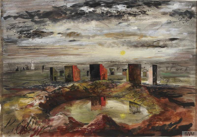 A number of small concrete air raid shelters arranged in a circle in flat countryside with a water filled crater in the foreground